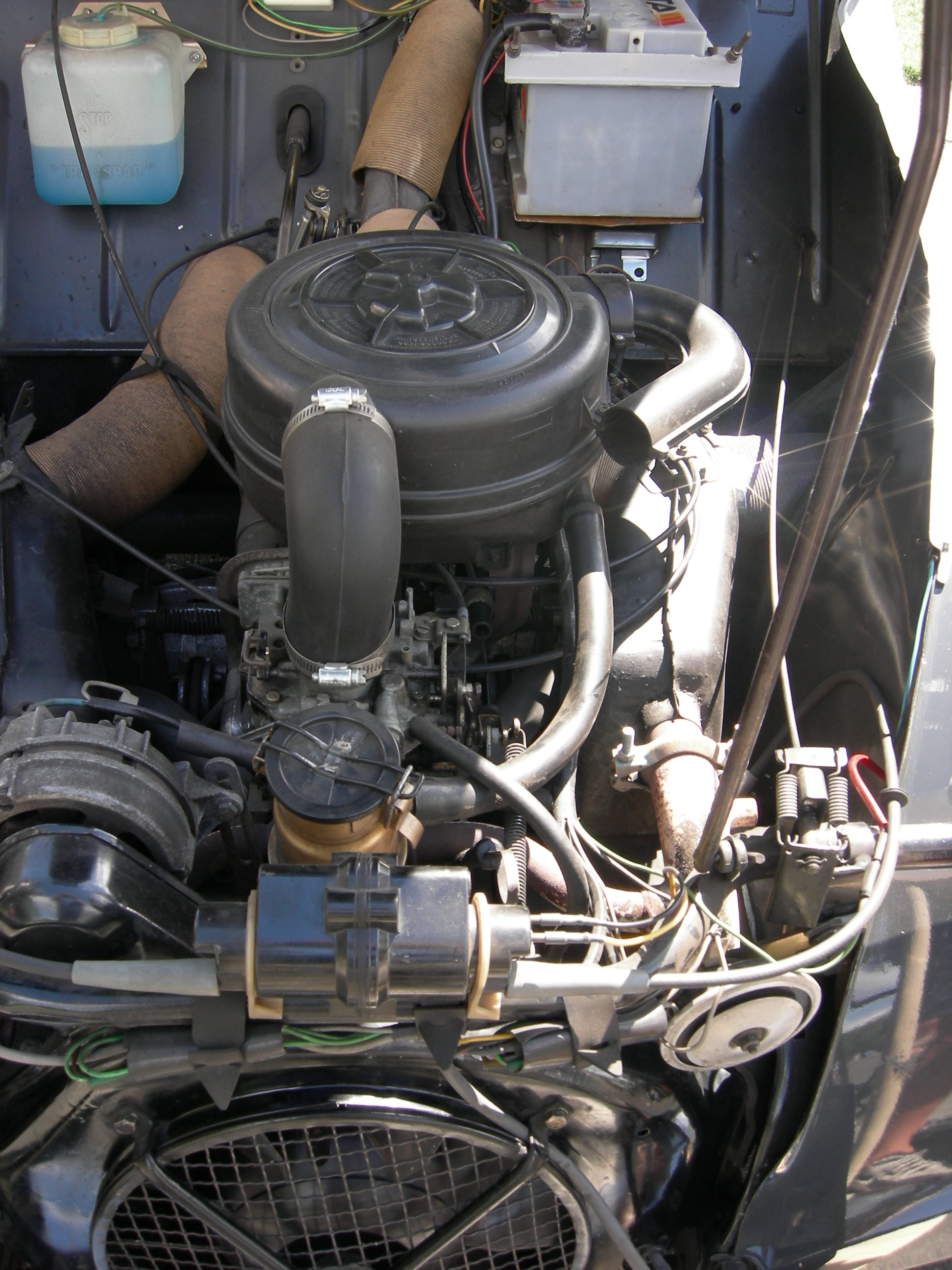 Engine of a reconditioned 1974 Citroën 2CV, photographed at the Bastille Day celebration that is part of the Festál series of festivals at Seattle Center, Seattle, Washington.